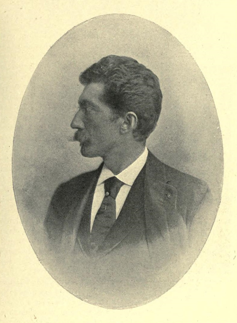 Portrait of Emile Wauters